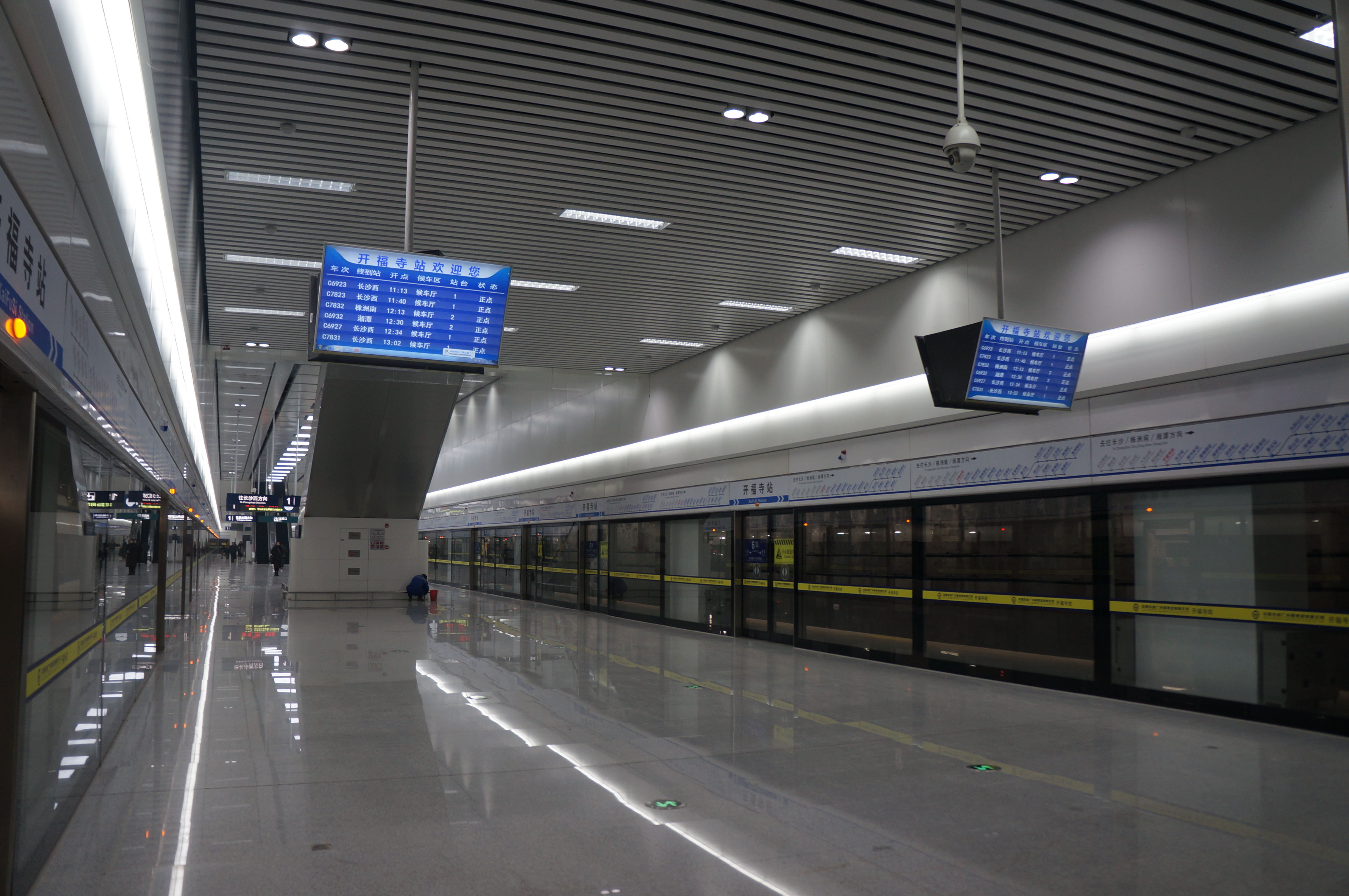 201712 Kaifusi Station